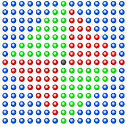 The sum of 8 times a triangular number and one is a perfect square